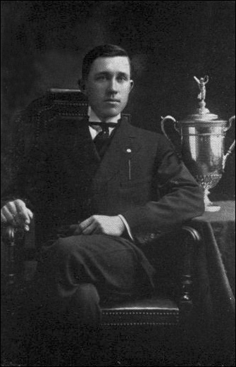 John J. McDermott, the 1911 and 1912 U.S. Open champion, with the U.S. Open trophy in 1913. He was the first U.S.-born winner. The trophy was destroyed by fire in 1946; a replica is used today.